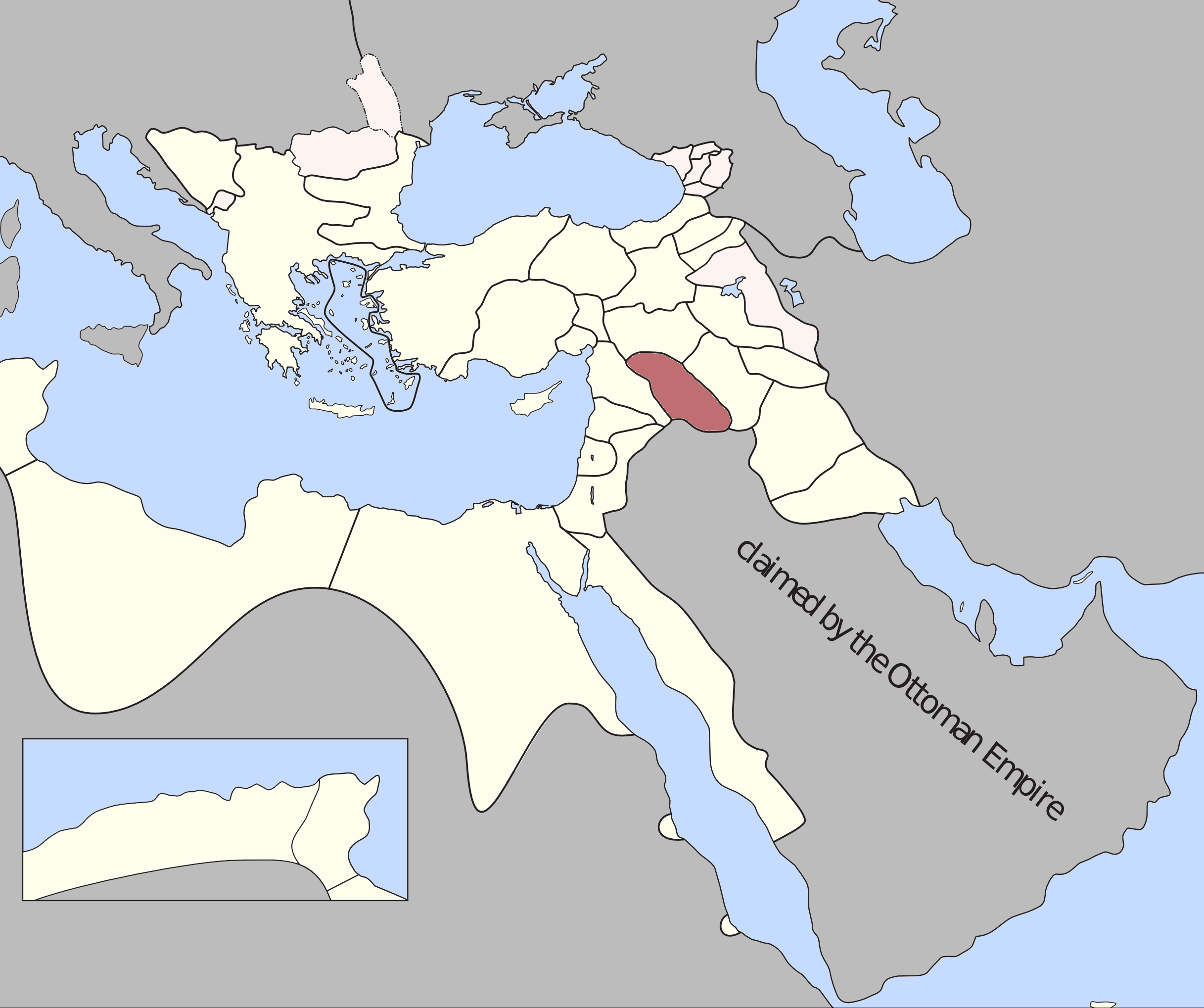 XY Eyalet, Ottoman Empire (1795). Source: A Brief History of the Late Ottoman Empire at Google Books By M. Sukru Hanioglu, Figure 1